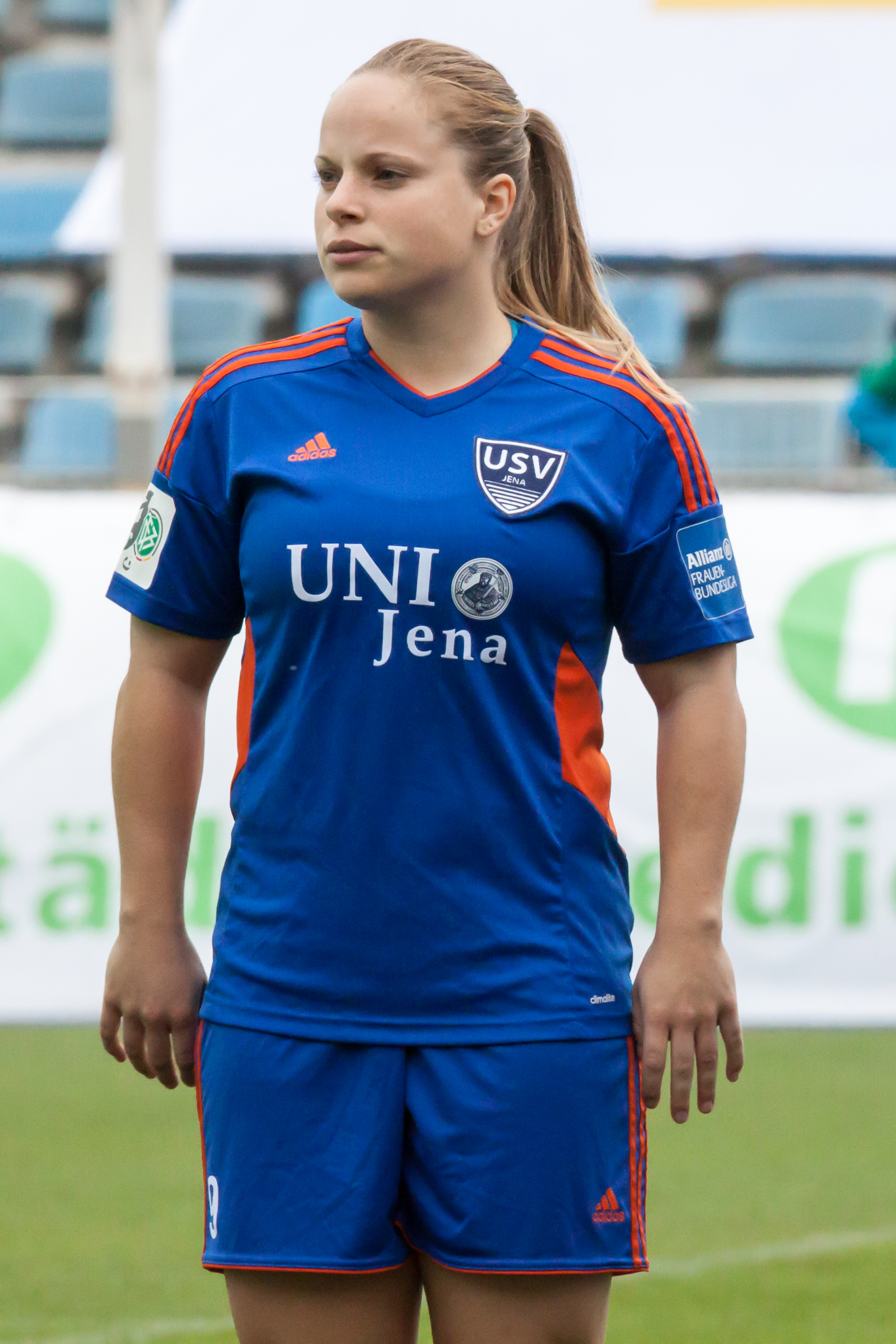 German Women Bundesliga soccer game: FF USV Jena vs. TSG 1899 Hoffenheim, 2014-10-11, at Ernst-Abbe-Sportfeld Jena.